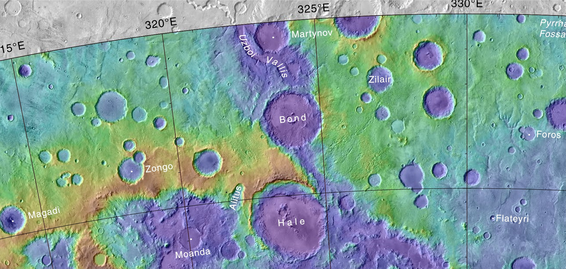 Topo map of Bond Crater and other features